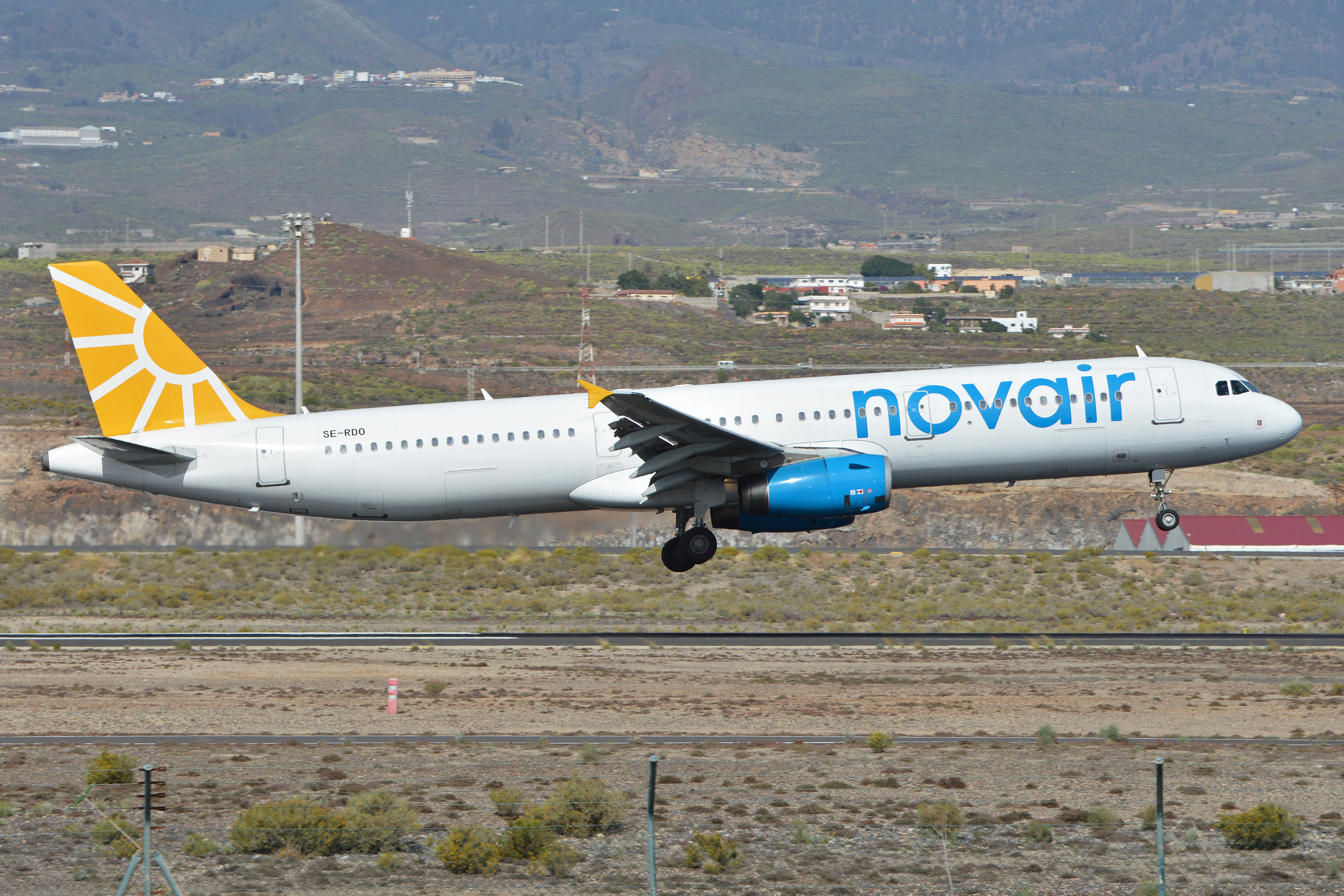 c/n 2216. Built 2004. Arriving on flight NVR177 from Stockholm. Tenerife South Airport, Canary Islands. 17-1-2016